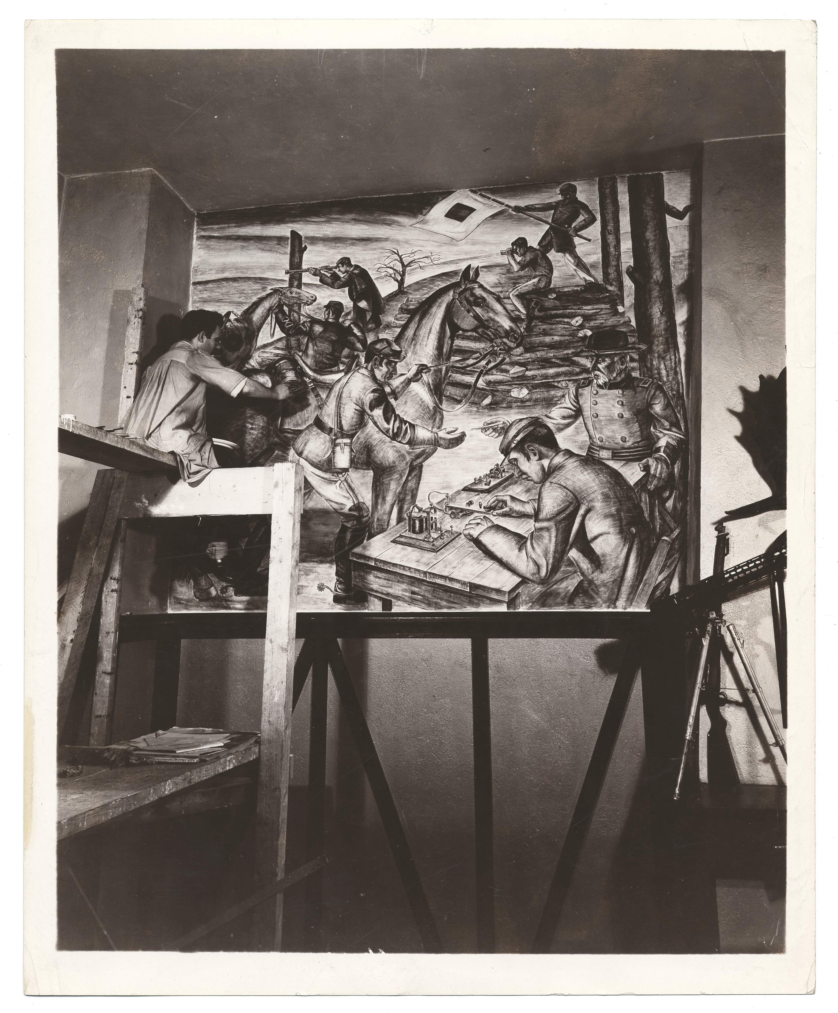 Letterio Calapai working on a mural for the WPA . Identification on verso (handwritten and stamped): Title: Evolution of Communication in American Wars; Artist: Letterio Calapai Identification on verso (handwritten and stamped): Federal Art Project W.P.A.; Photographic Division; 18 East 57th St.; New York City; Location: 101st Signal Batt. 801 Dean St., Bklyn; Artist at work on mural; Negative No.: N132A.